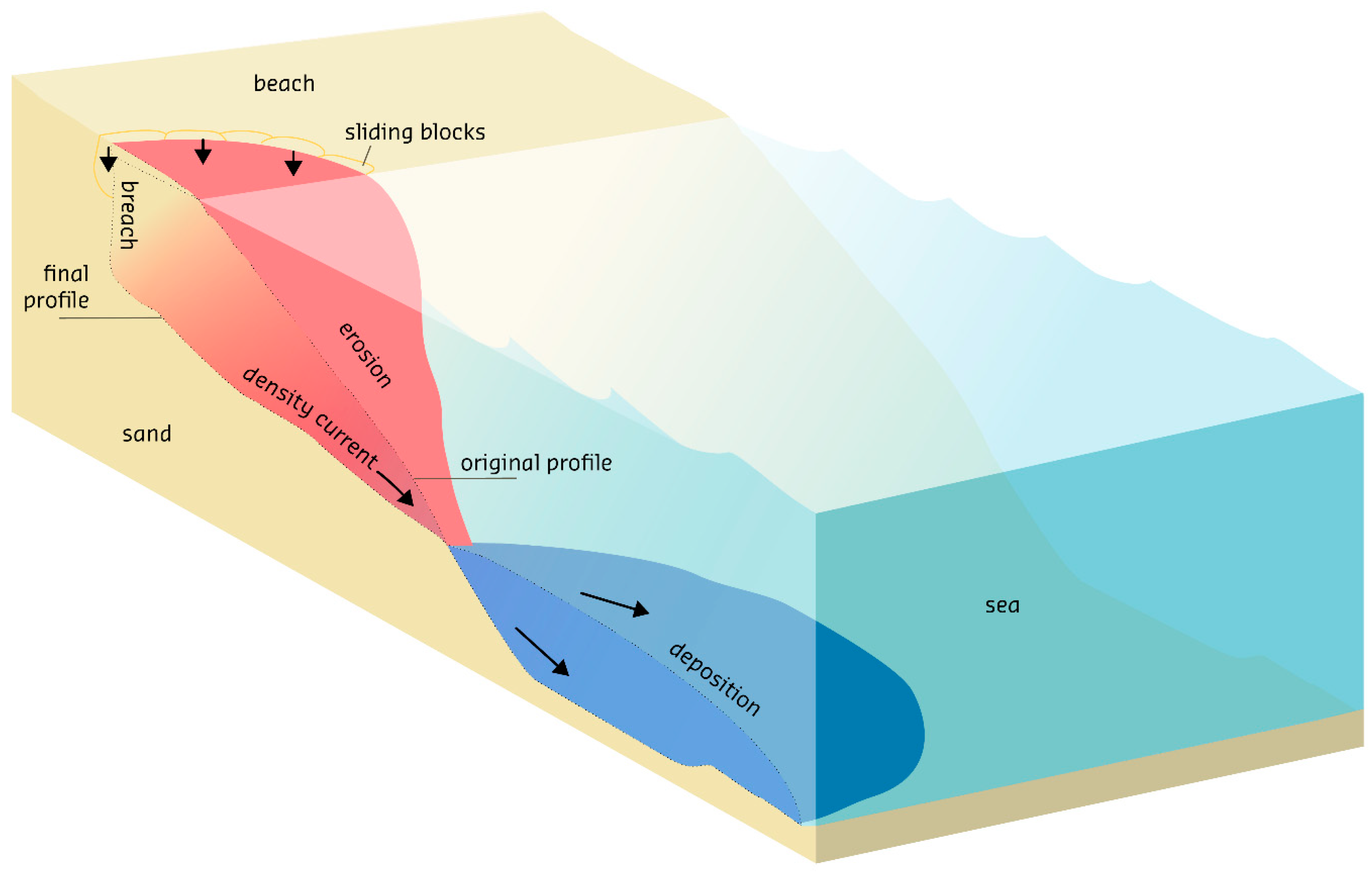 Schematic diagram of a flow slide or RBF event in the coastal shoreface retrogressing into the foreshore and beach during low water (Left: Cross section. Right: 3D view. Red = erosion, blue = deposition).